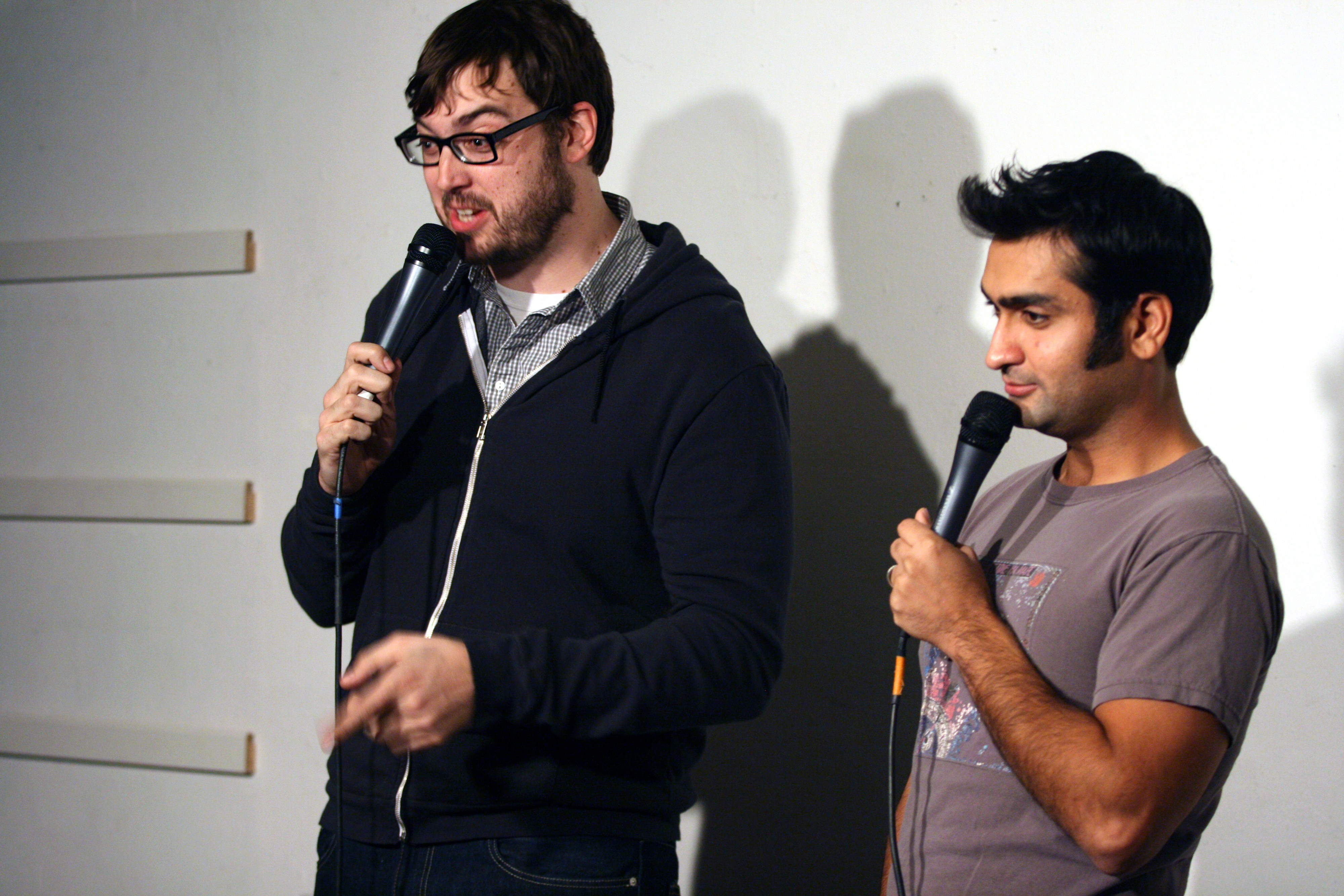 Jonah Ray goes over the events that transpired during his terrible restaurant experience Wednesday at the Meltdown. 12.7.11 © Atrossity Photography